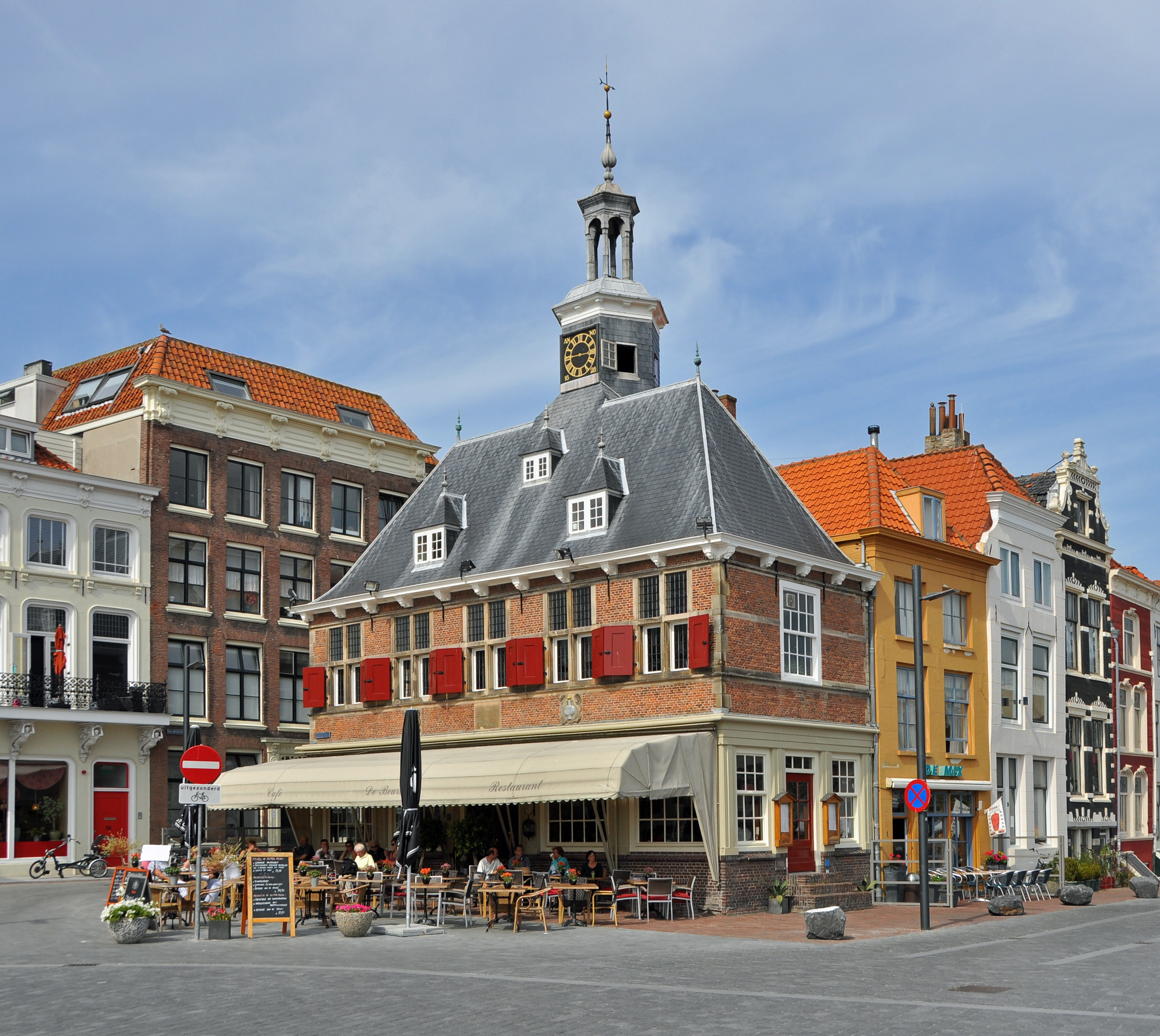 Vlissingen (the Netherlands): the Beursgebouw